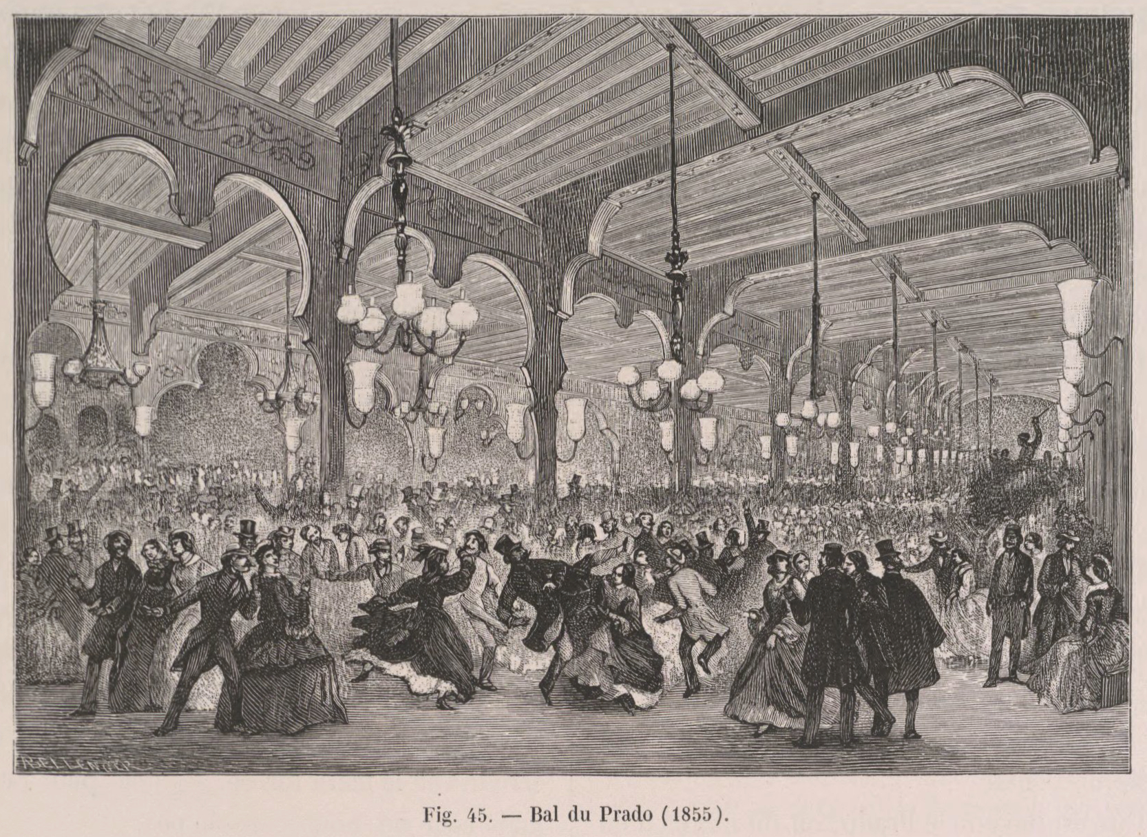 The Parisian Prado Ball, inspired by its Spanish counterpart, is represented here in 1855. A popular public dance venue for those who frequented the Jardin Bullier, its building would later house the Tribunal de Commerce.